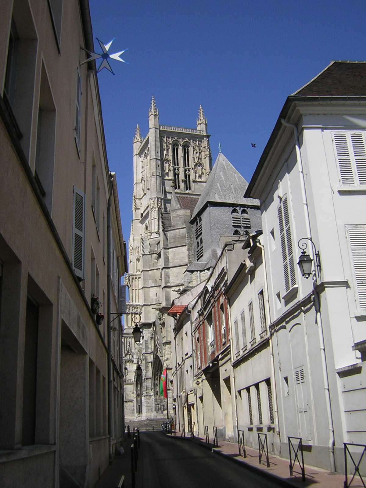 Meaux (Seine and Marne, France) and its cathedral